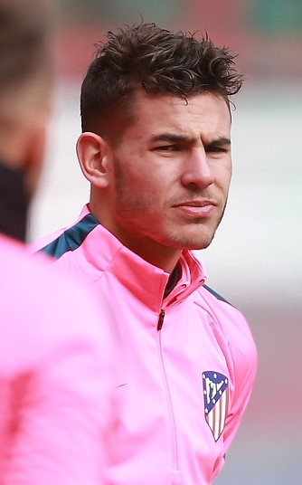 Lucas Hernández